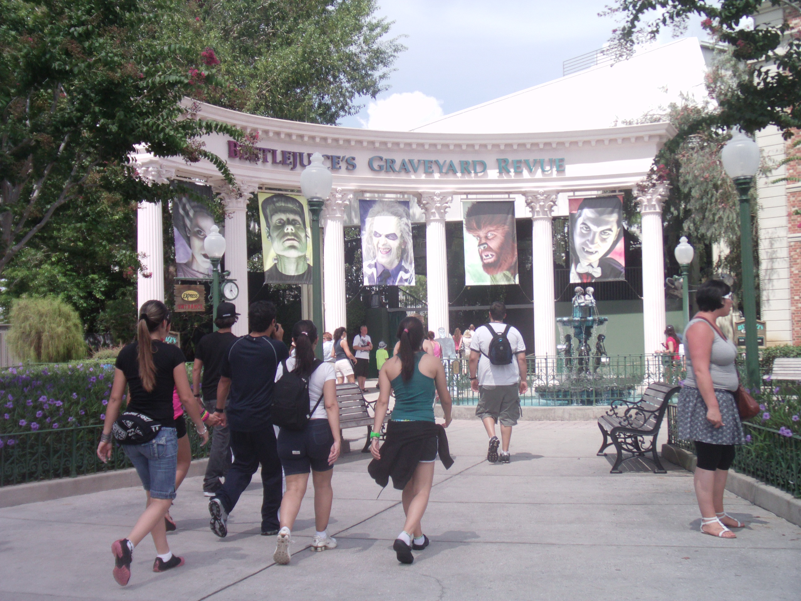 Entrance to Beetlejuice's Rock and Roll Graveyard Revue at Universal Studios Florida.